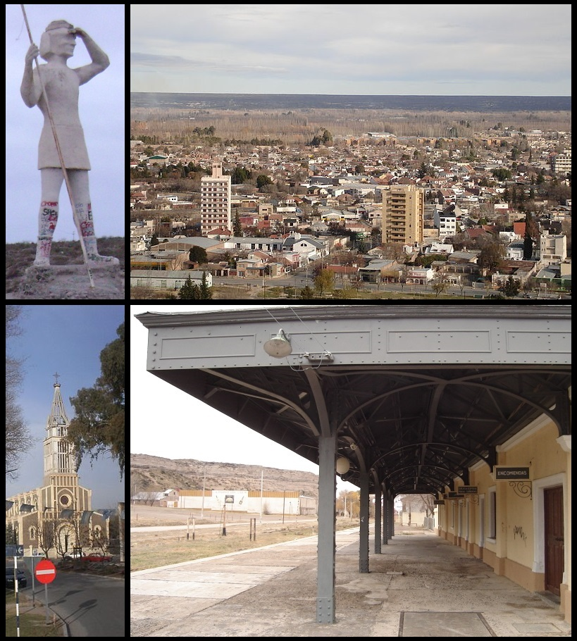 Photo montage of Villa Regina